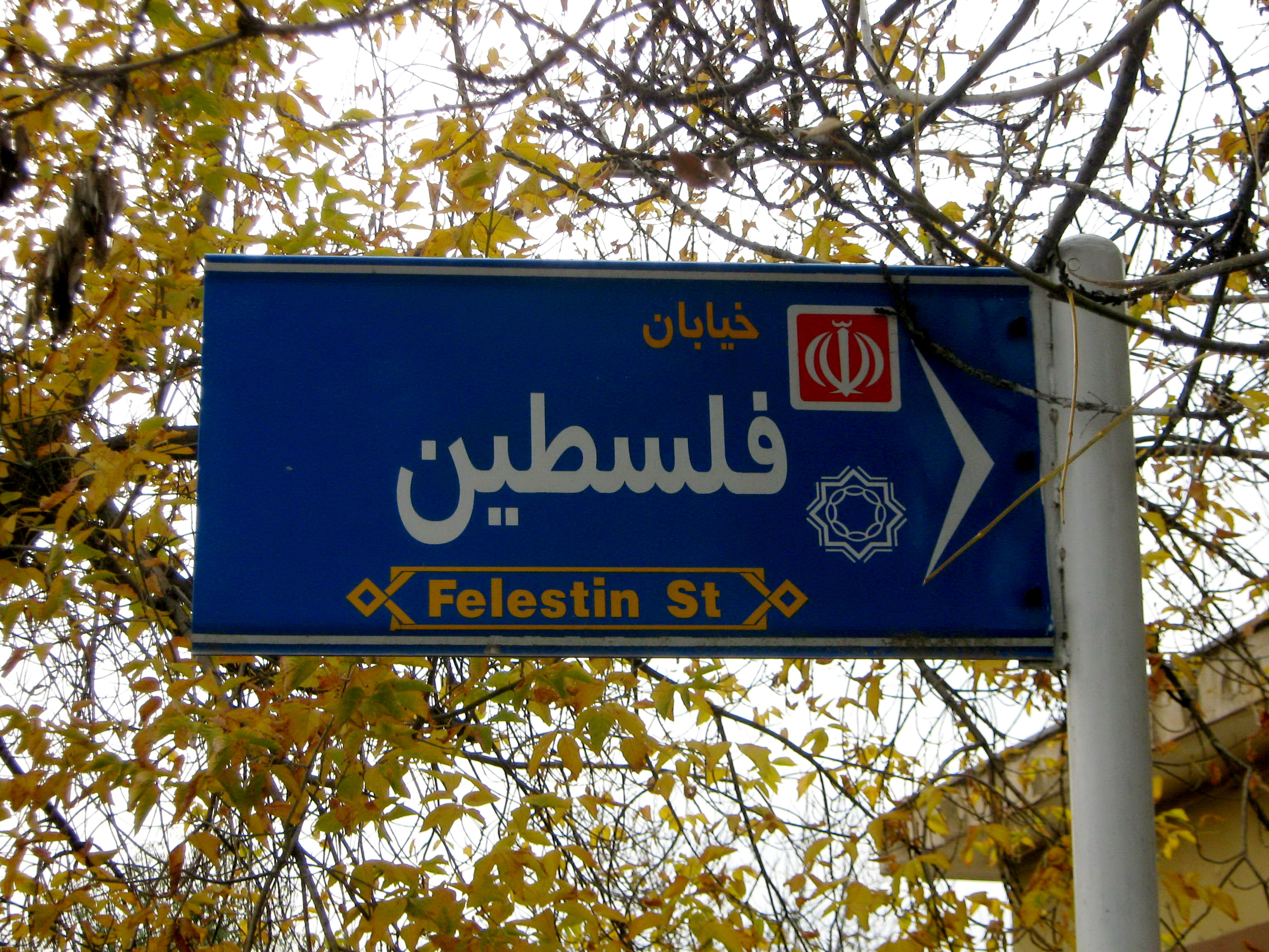 Alleys in autumn - Nishapur